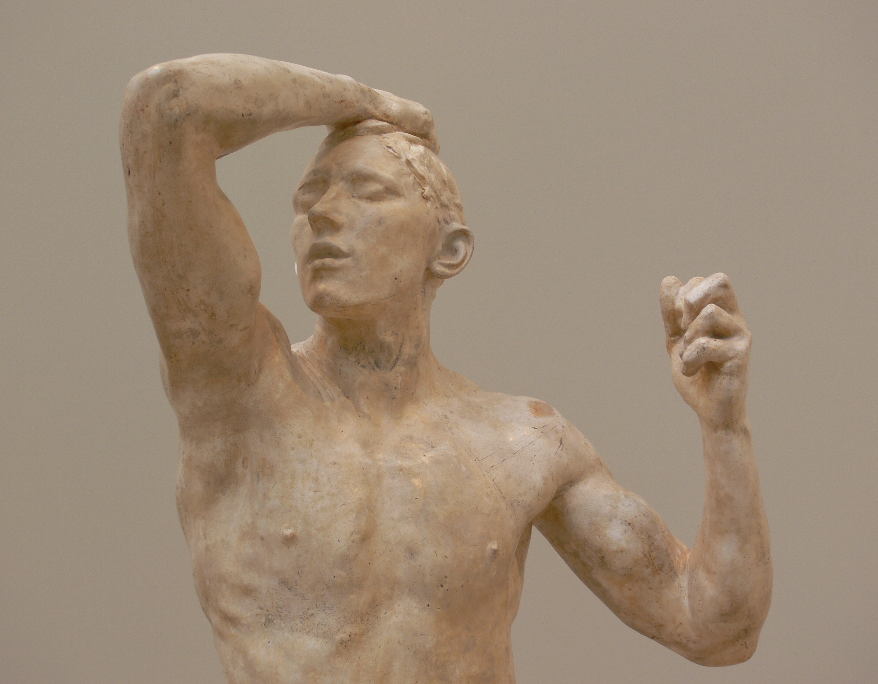 Auguste Rodin: L'Âge d'airain (The Age of Bronze), life-sized plaster cast, c. 1876, Nasher Sculpture Center, Dallas, Texas (Raymond and Patsy Nasher Collection, acquired in 1995)